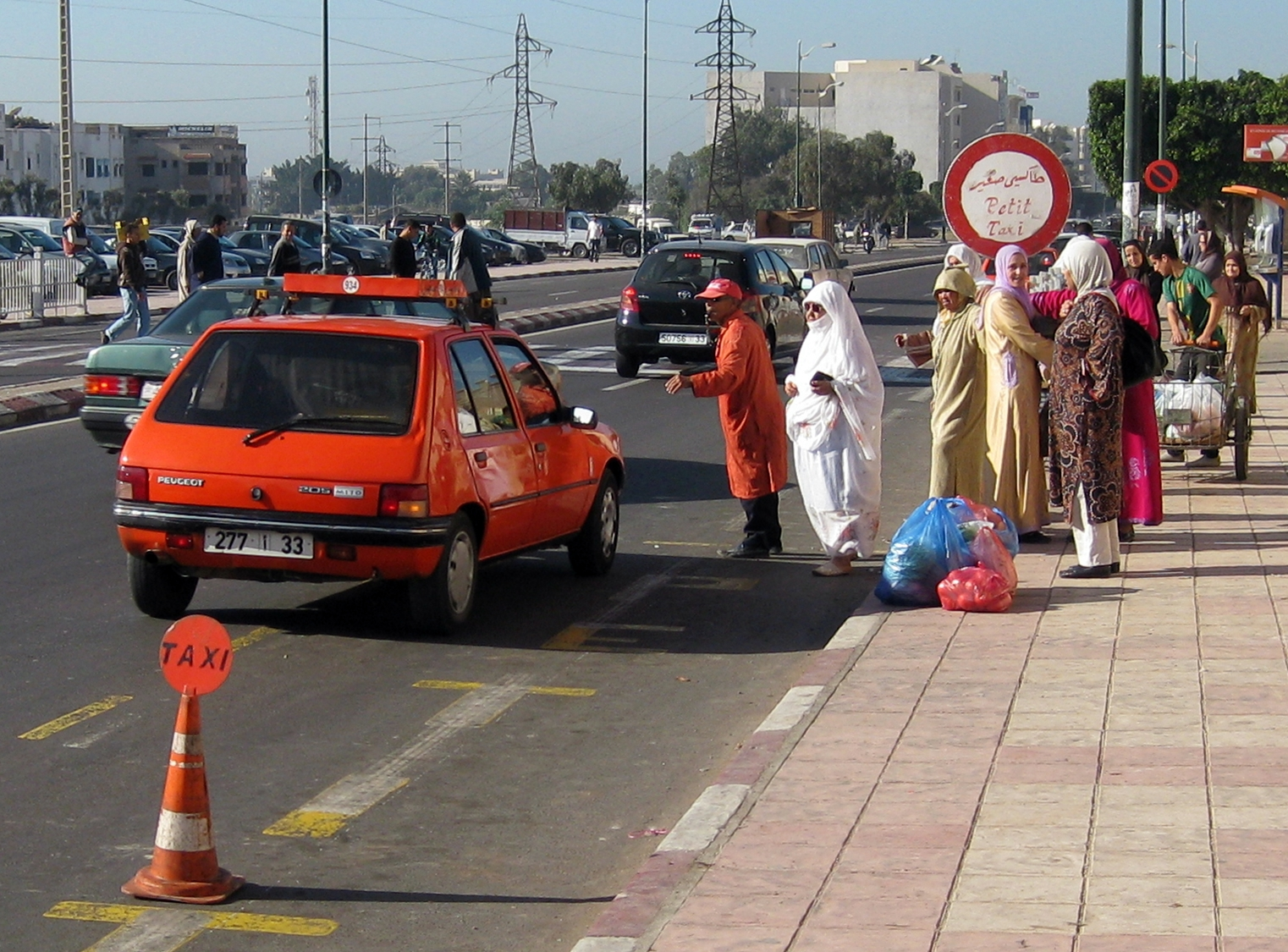 Morocco, Agadir: Petit Taxi (smaller then regular ones).